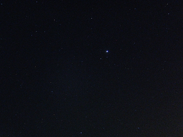 Capricornus, Aquarius and Jupiter